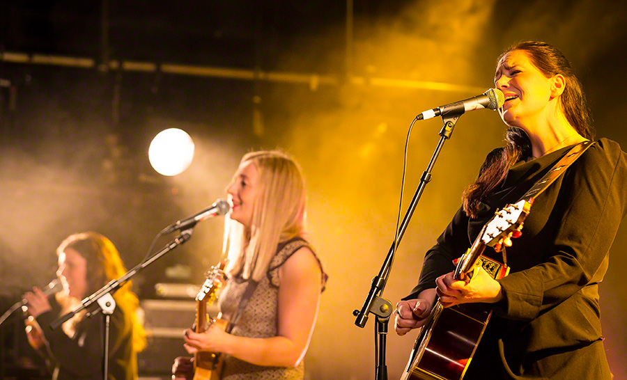 Reunion concert with Ephemera at Parkteatret in Oslo on 16.04.2016. Lineup:Jannicke Larsen (keyboard)Ingerlise Størksen (guitar)Christine Sandtorv (guitar)